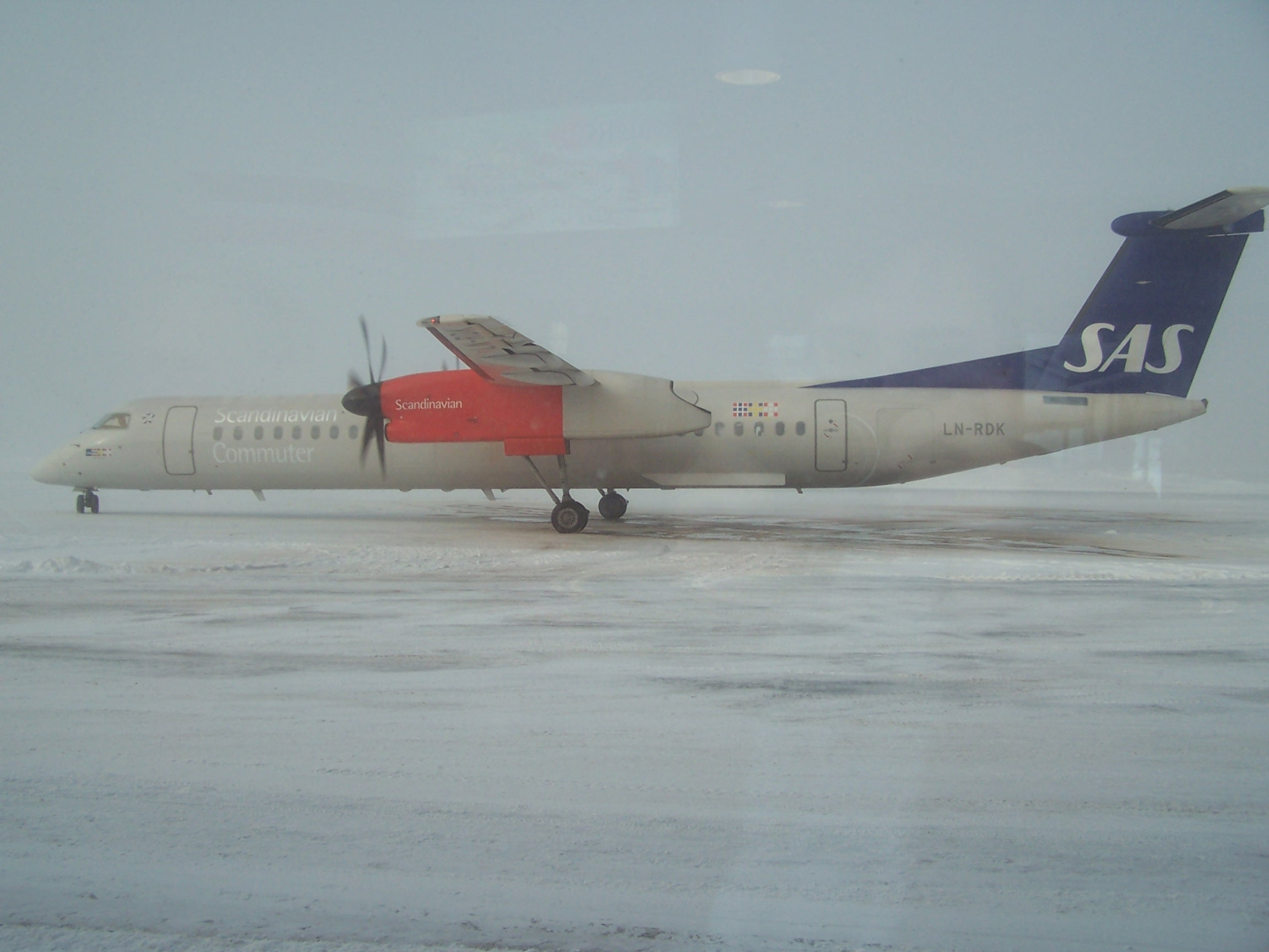 De Havilland Canada DHC-8-402Q Dash 8 taxing out from Växjö Airport.